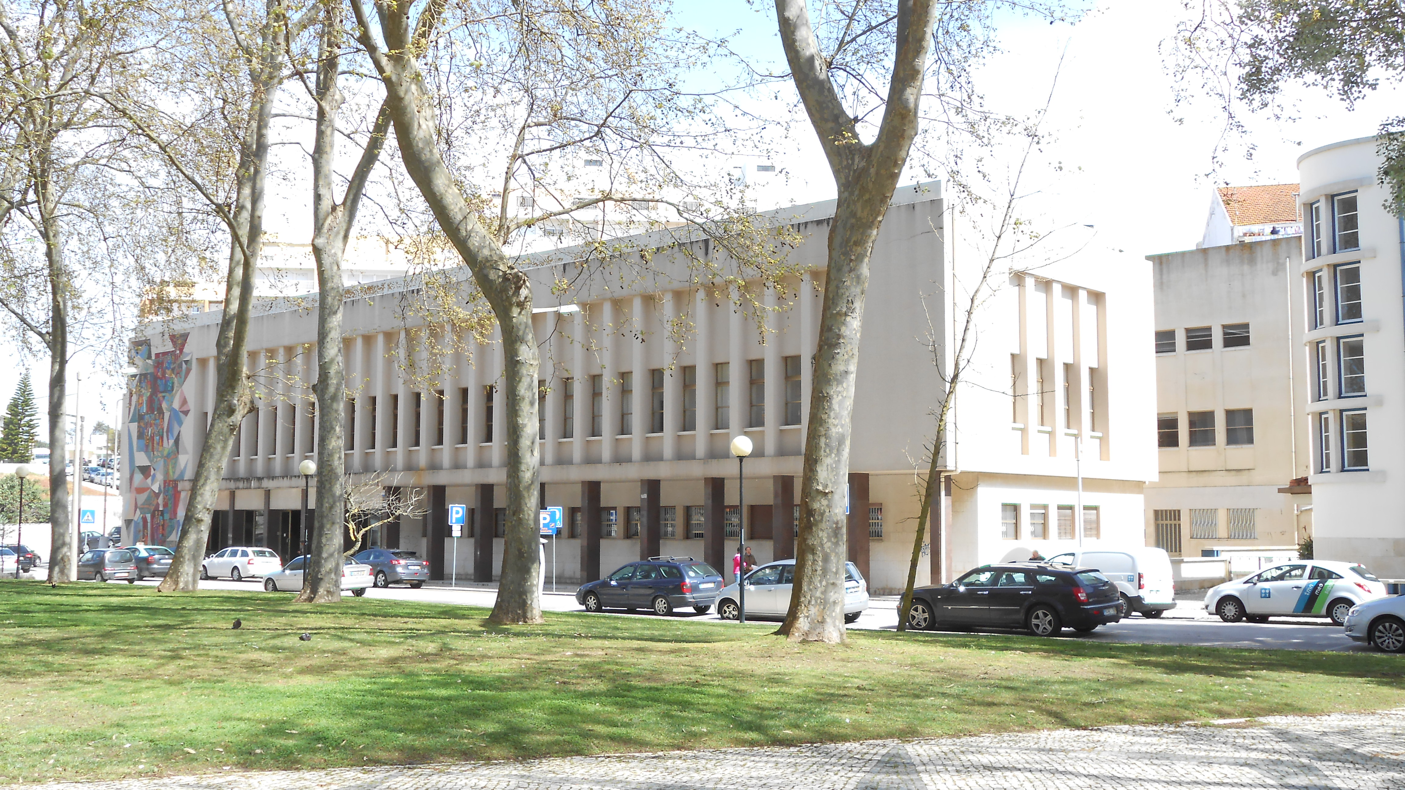 The court house in Figueira da Foz, Portugal.